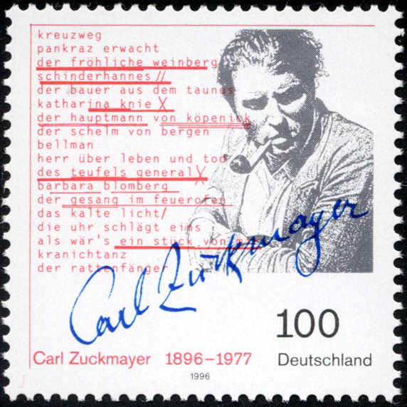 Stamp from Deutsche Post AG from 1996, 100th birthday of Carl Zuckmayer